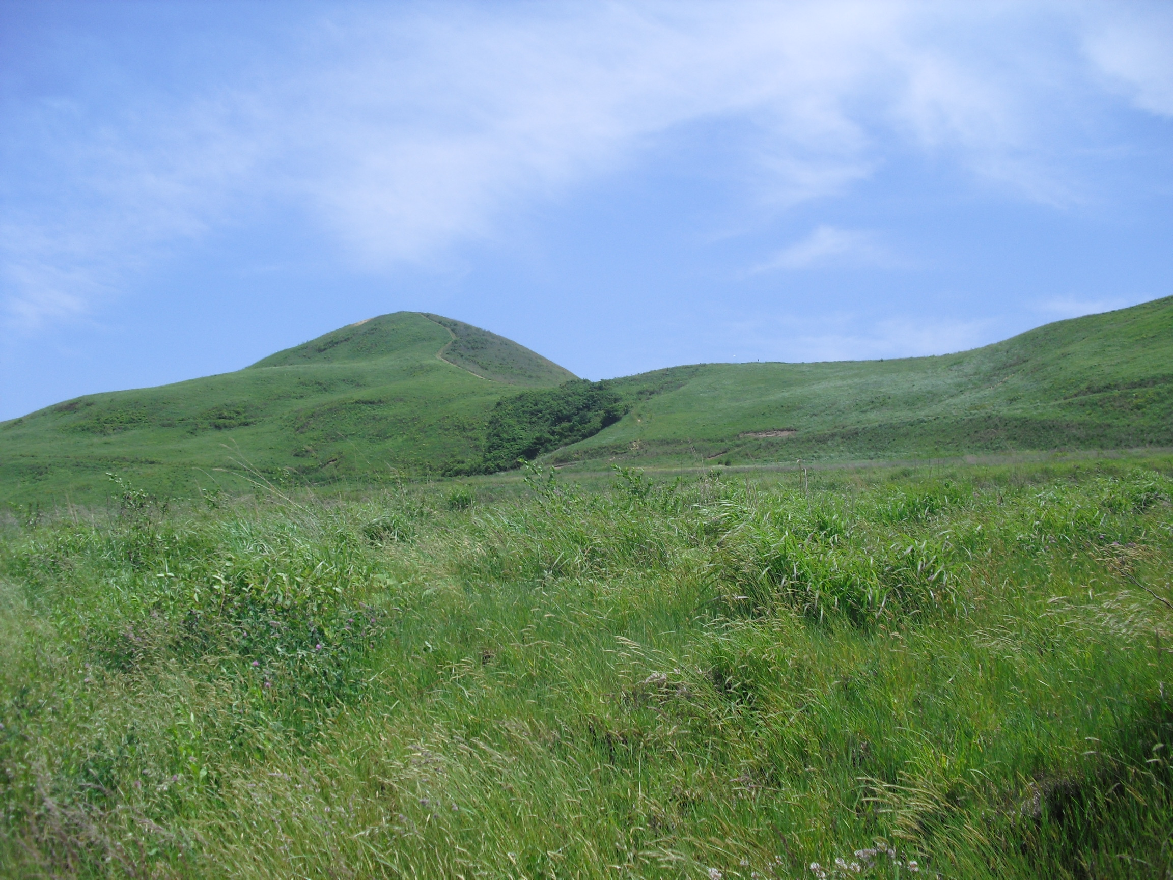 Shiodzuka_kogen_plateau